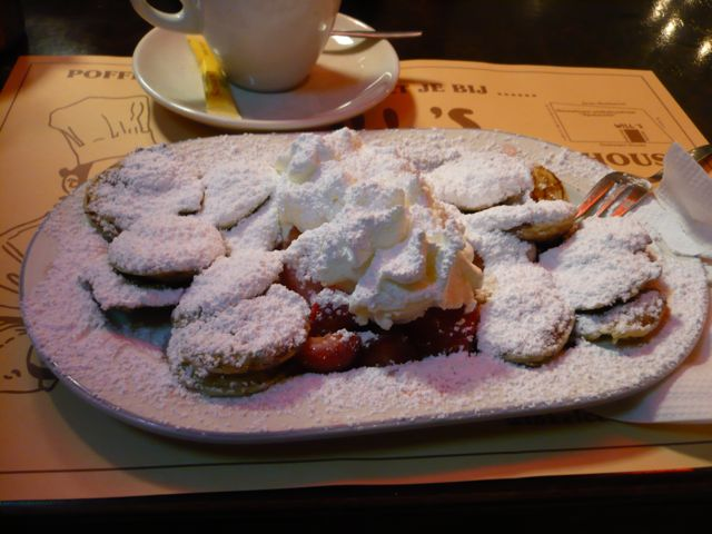 Poffertjes (small pancakes) with butter en powdered sugar. "Lurking under all that powdered sugar, there's a bunch of tint, puffy, Dutch pancake-like things called poffertjes. There's also strawberries and whipped cream and a lot of butter."